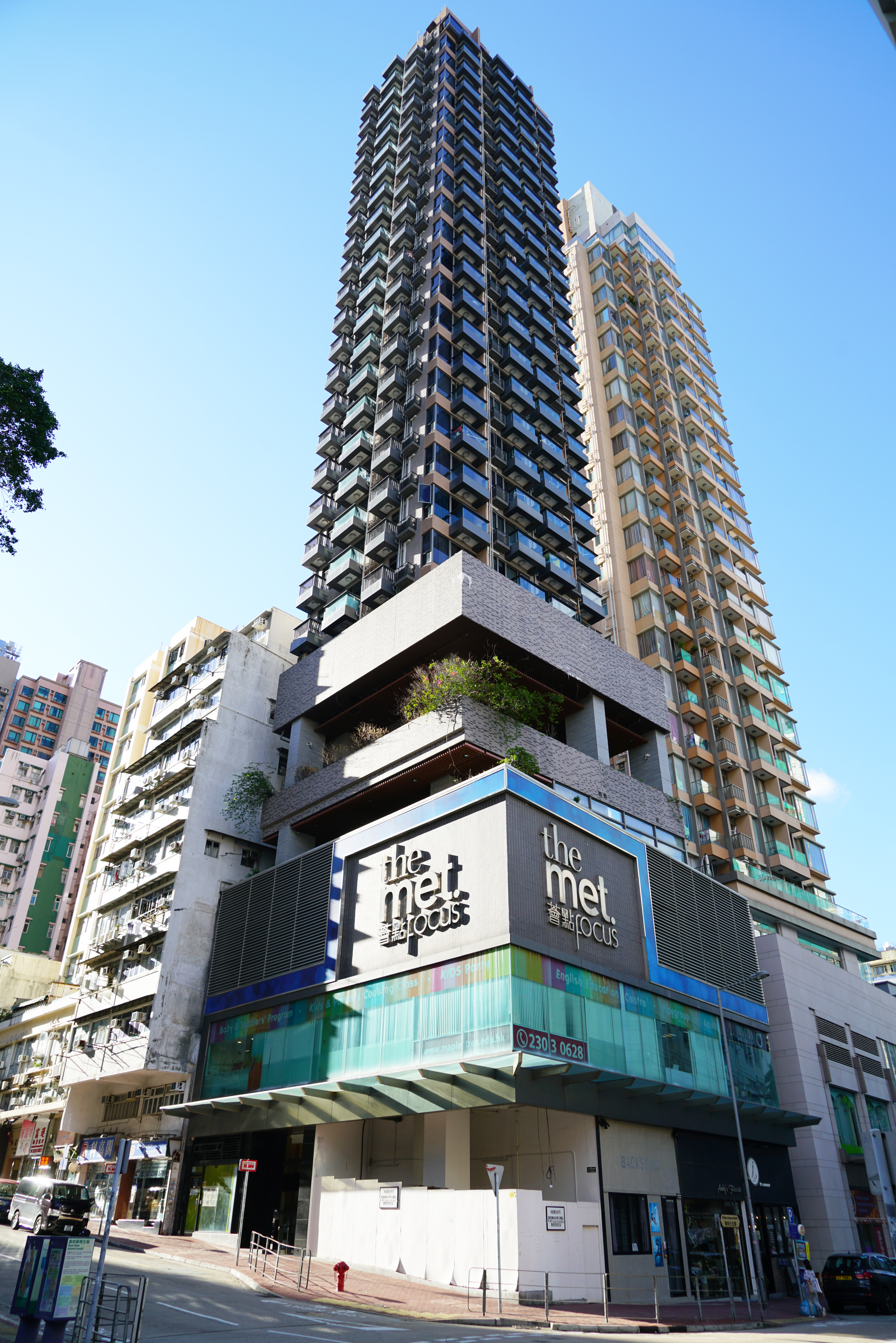 The Met. Focus, Hong Kong.